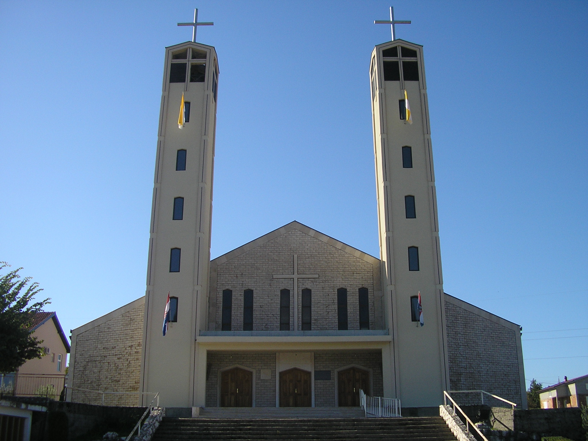 All Saints church, Aladinići (Stolac), BiH